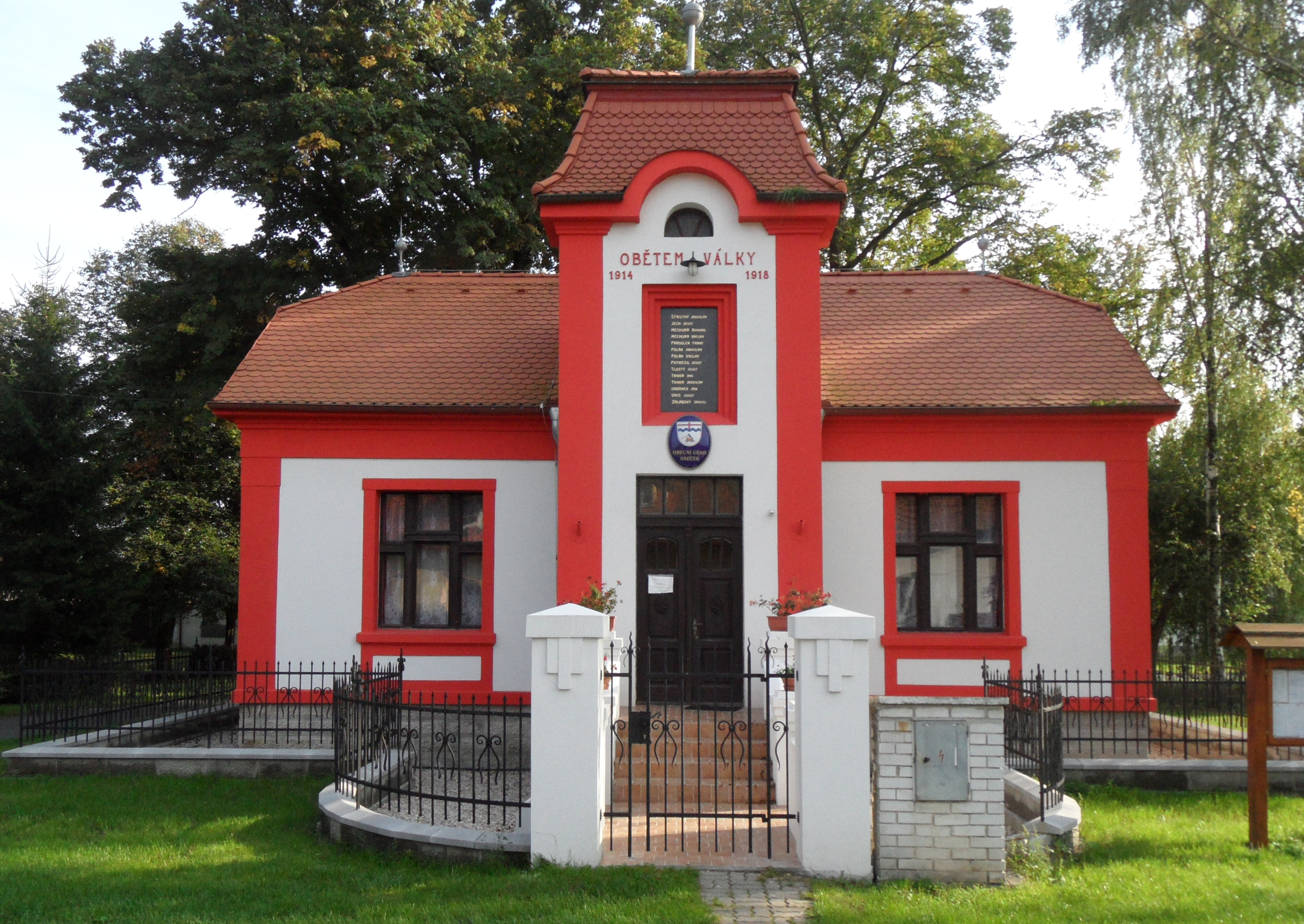 Oseček A. Building of Municipality Office, Nymburk District, the Czech Republic.